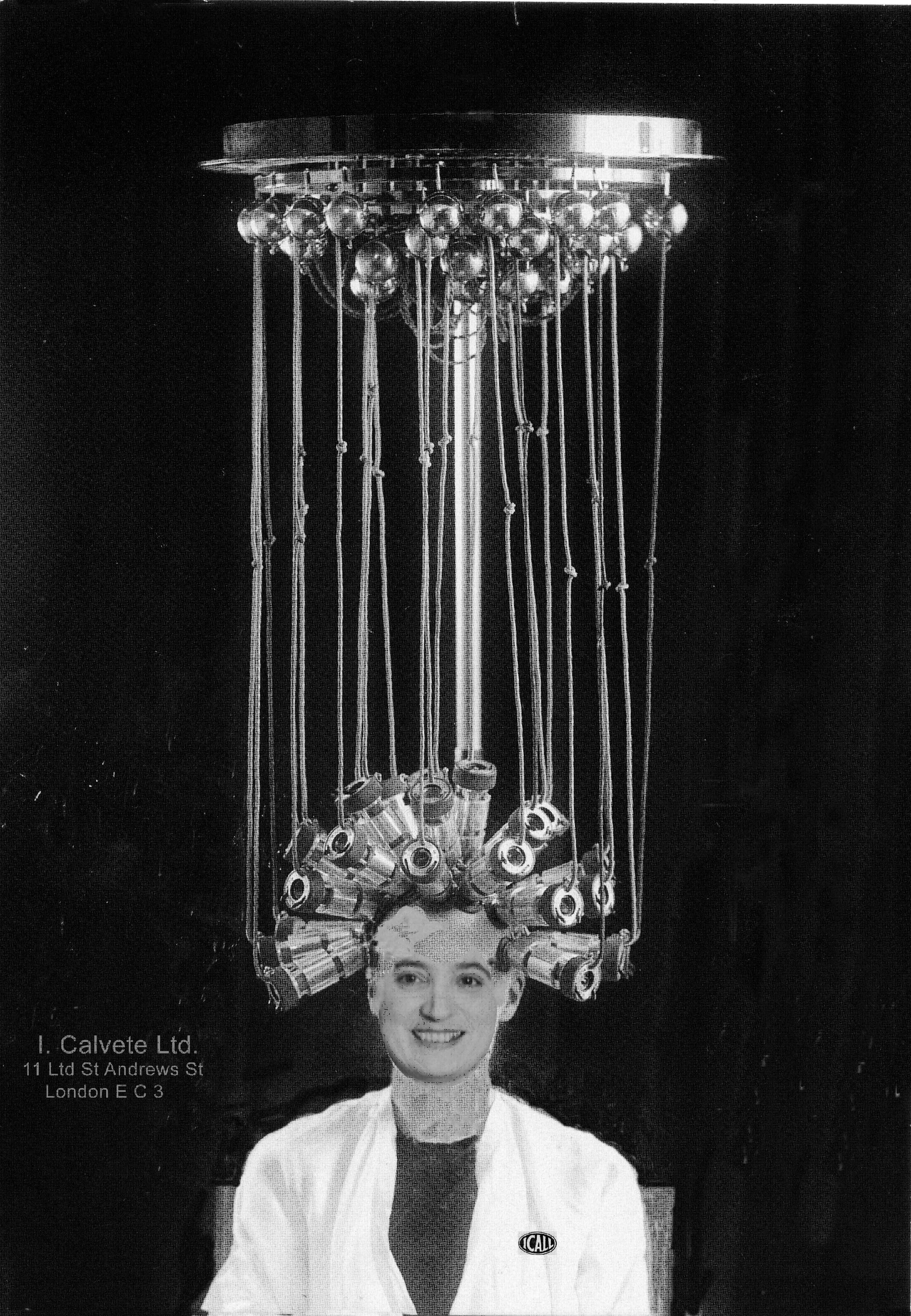 This picture shows a 1923 permanent-waving machine built by Icall for sale by Eugene Suter under the name "Eugene". The 22 tubular heaters, designed in 1917 by Isidoro Calvete and patented by Suter in 1920, hung from the 'chandelier' by their wires, which also served to take the weight of the heaters. This type of heater could only be used for 'root-winding' of the hair.